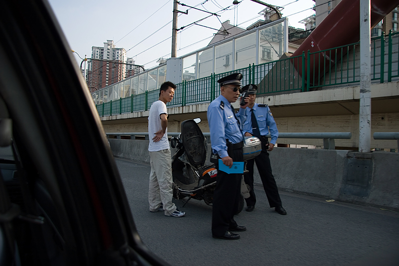 A driver get his scooter checked. The police in front is on his way to give him a ticket (has his little 'ticket book' i his right hand). The man probably have plates that claims that his scooter is powered by LPG instead of petrol. The police opened the seat to check what fuel system the scooter actually uses (the tank lid is under the seat). If your scooter is powered by LPG you can drive around all of Shanghai, but if you use petrol like this man...you can't in most cases.